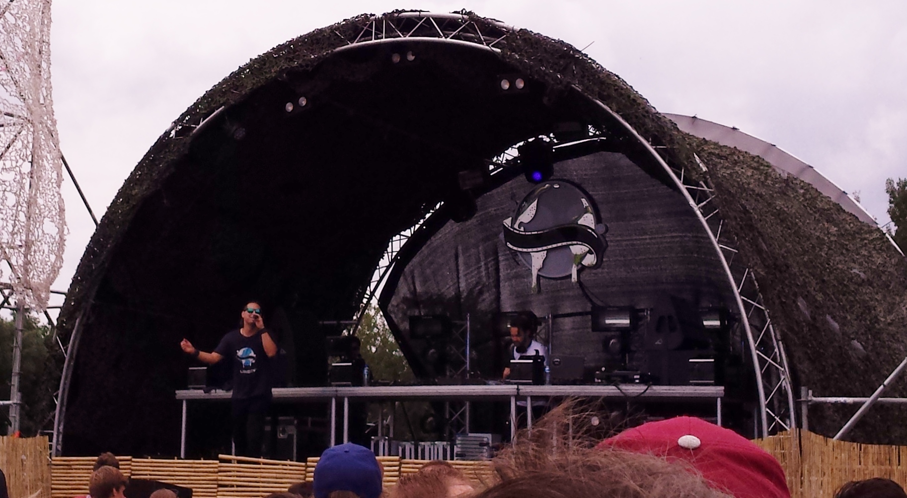 Swedish liquid drum and bass DJ Seba (Sebastian Ahrenberg) at Liquicity Festival 26 July 2015 (Diemerbos, the Netherlands).